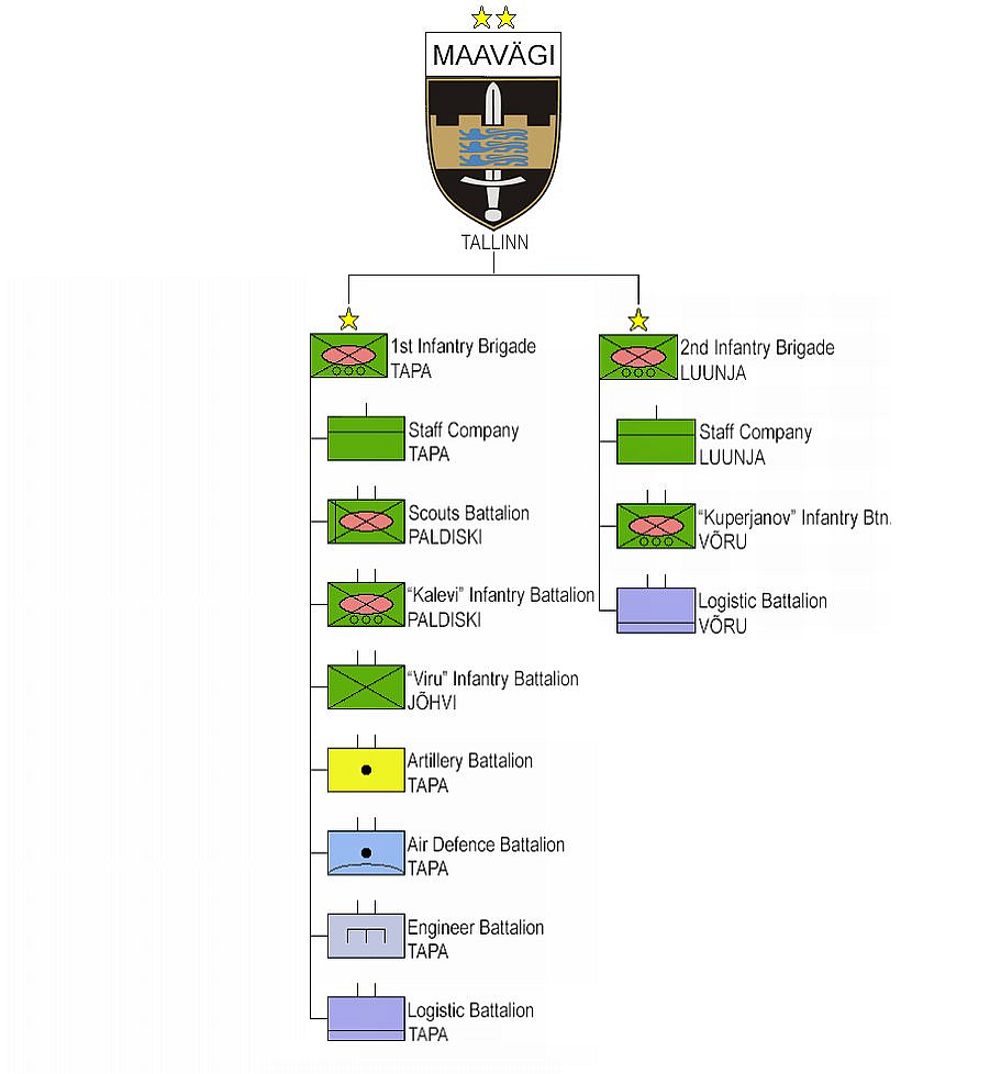 Estonian Land Forces structure during peace time